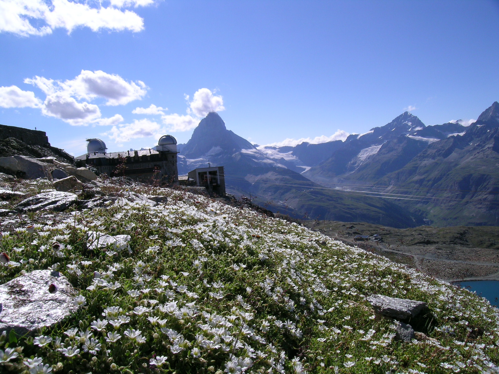 Cerastium uniflorum Zermatt, Gornergrat (Kanton Wallis, Switzerland), 3100 m Author: Roland Teuscher – own photograph Date: 2.08.06